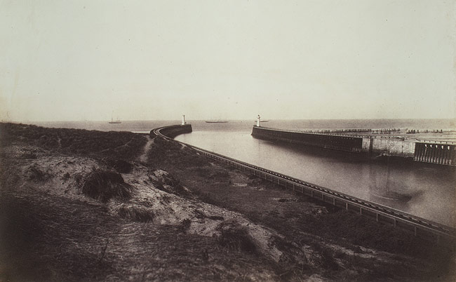 Entrance to the Port of Boulogne; Salted paper print from paper negative; 11 5/16 x 17 1/8 in. (28.8 x 43.5 cm); Louis V. Bell Fund, 1992 (1992.5000)